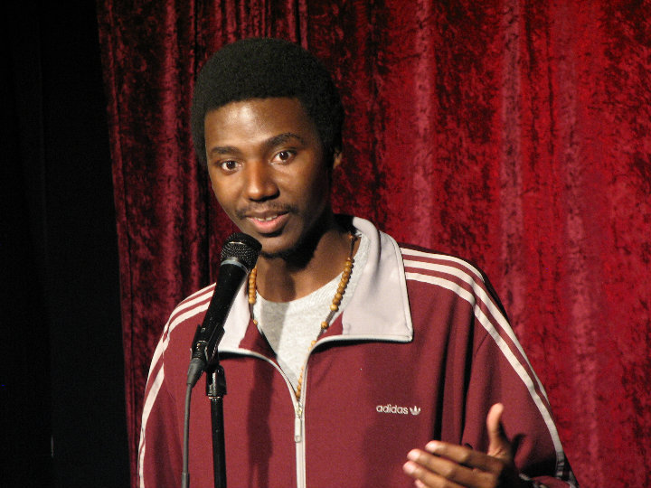 American comedian Jerrod Carmichael at the Comedy Store comedy club in California.